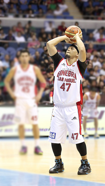 Philippine Basketball Association